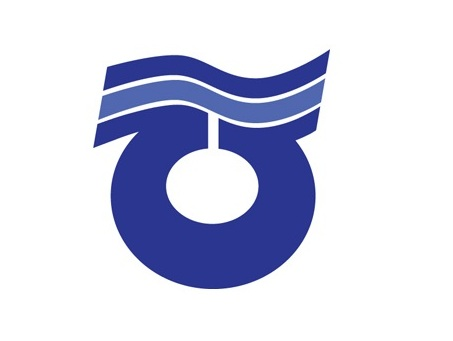 Flag of Higashiagatsuma Gunma